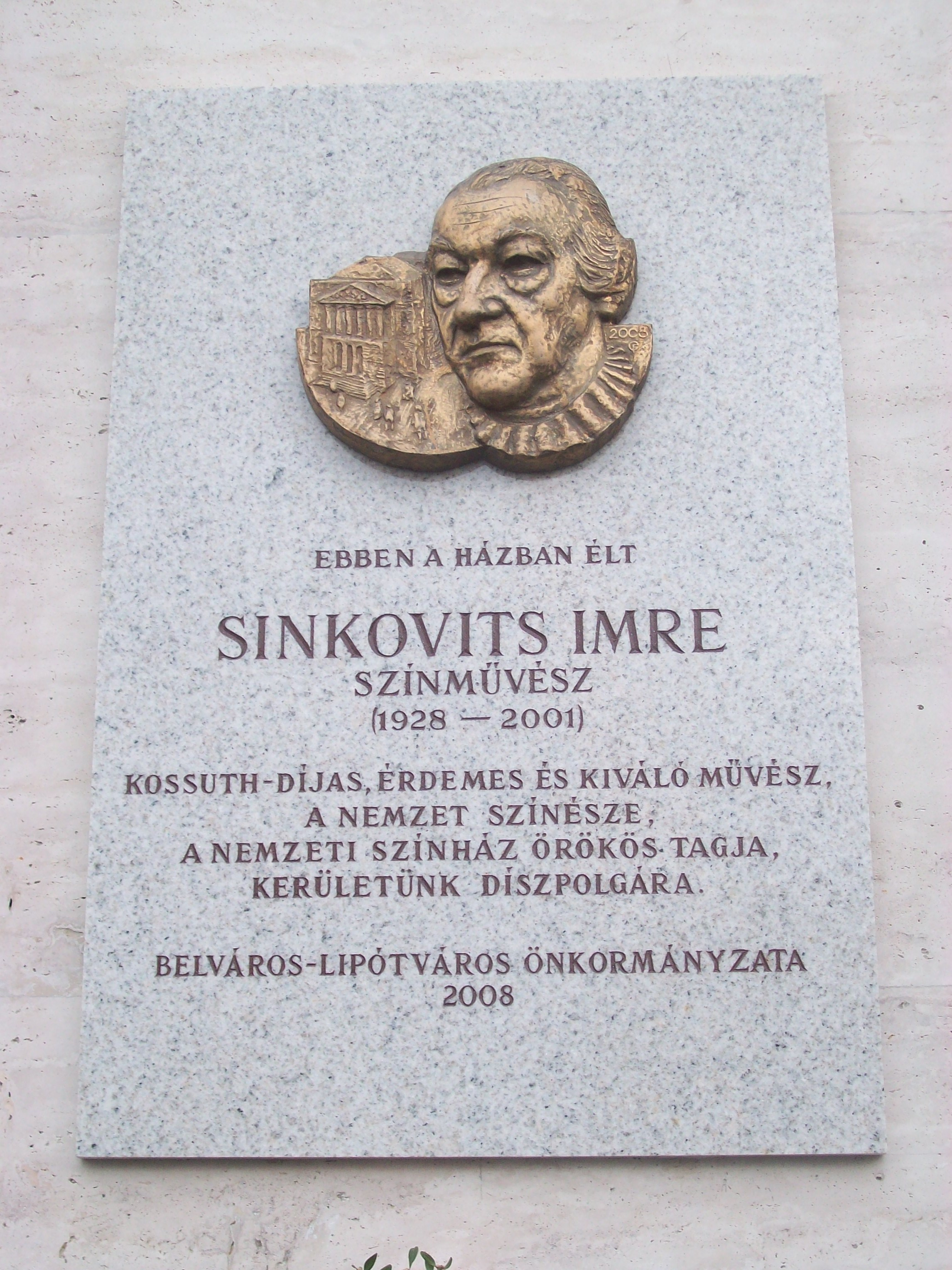 Imre Sinkovits commemorative plaque in Petőfi Square.